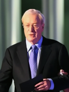 Michael Caine at the Nobel Peace Prize Concert in 2008